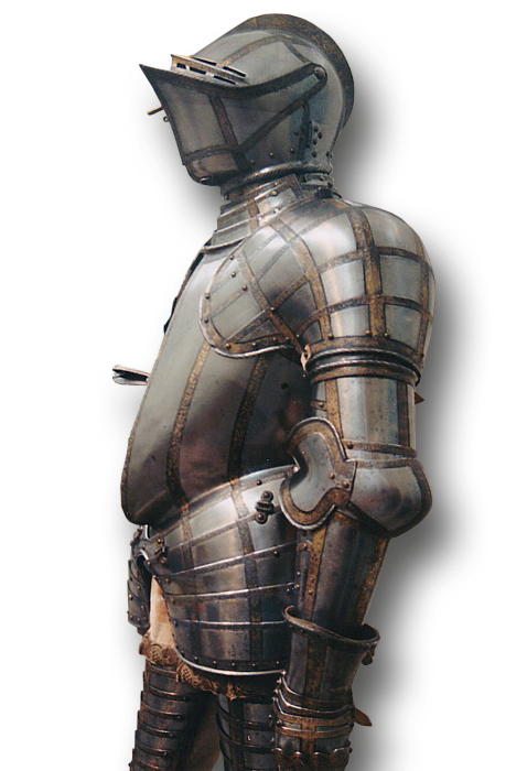 The Armor of Sir James Scudamore